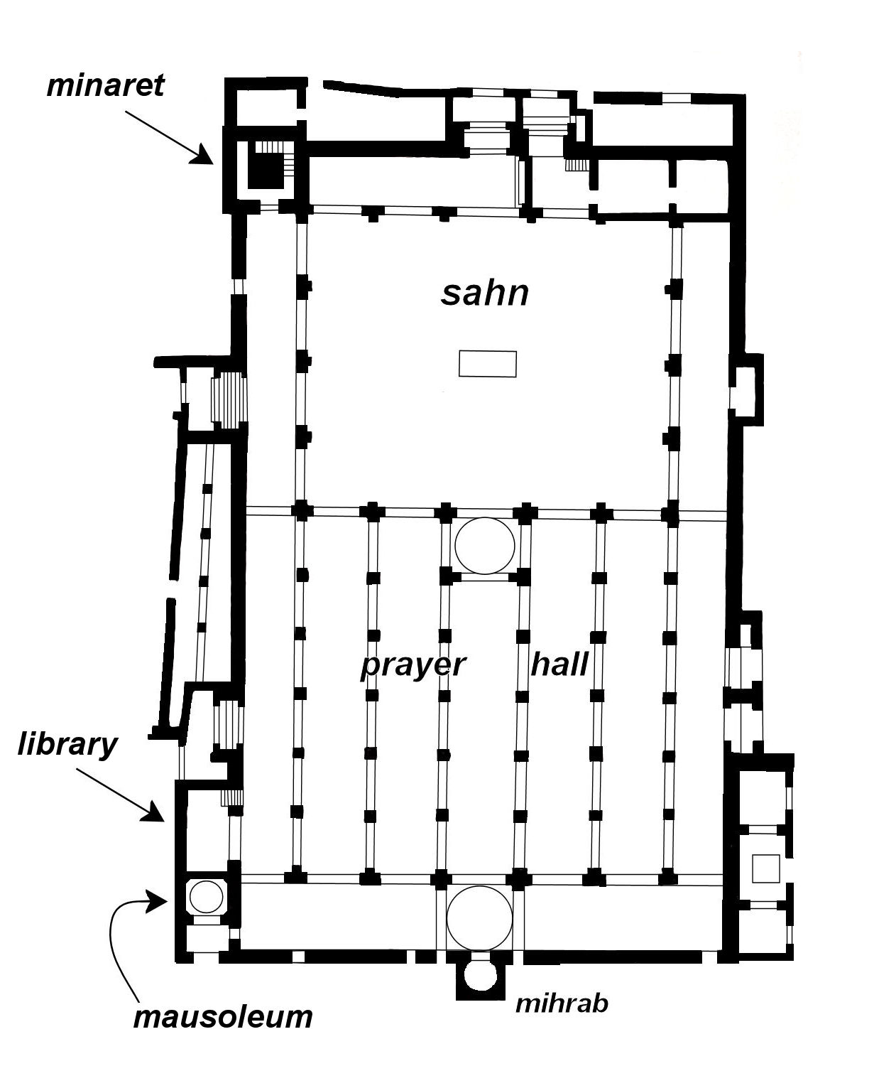 Floor plan of the Grand Mosque of Fes el-Jdid. The plan is based on the one published by Boris Maslow (1937, "Les mosquées de Fès et du nord du Maroc") and republished in a slightly abridged version by Georges Marçais (1954, "L'architecture musulmane d'Occident"). The plan here isn't perfect: some of the broad lines are very slightly crooked and I followed the later abridged version more, leaving out some peripheral rooms and walls because they didn't seem to improve the understanding of the building and it's not clear to me if they're still standing today. Note or this labelled version: Same as "Grand mosque fes jdid plan.jpg" uploaded here, but English labels for the main notable parts of the building have been inserted.